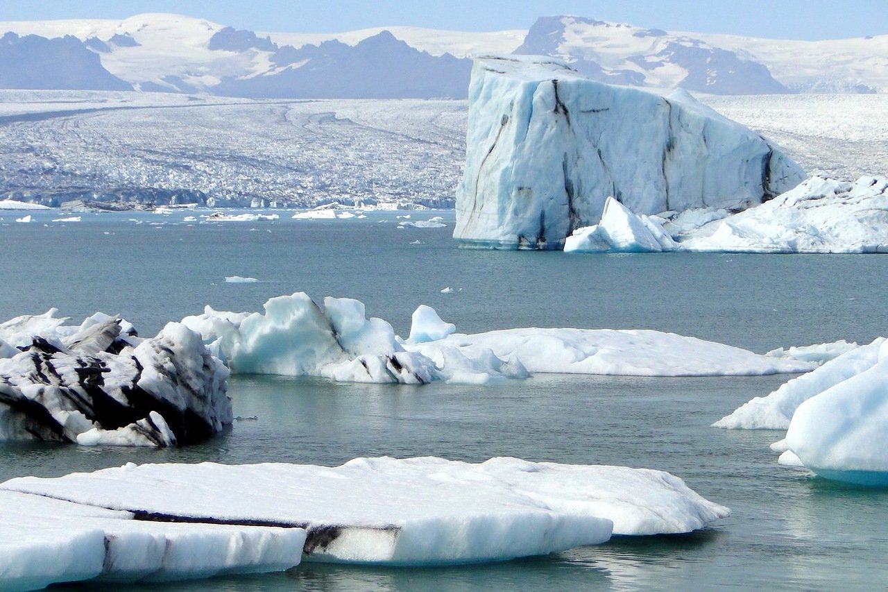 Jokulsaron lagoon in Iceland